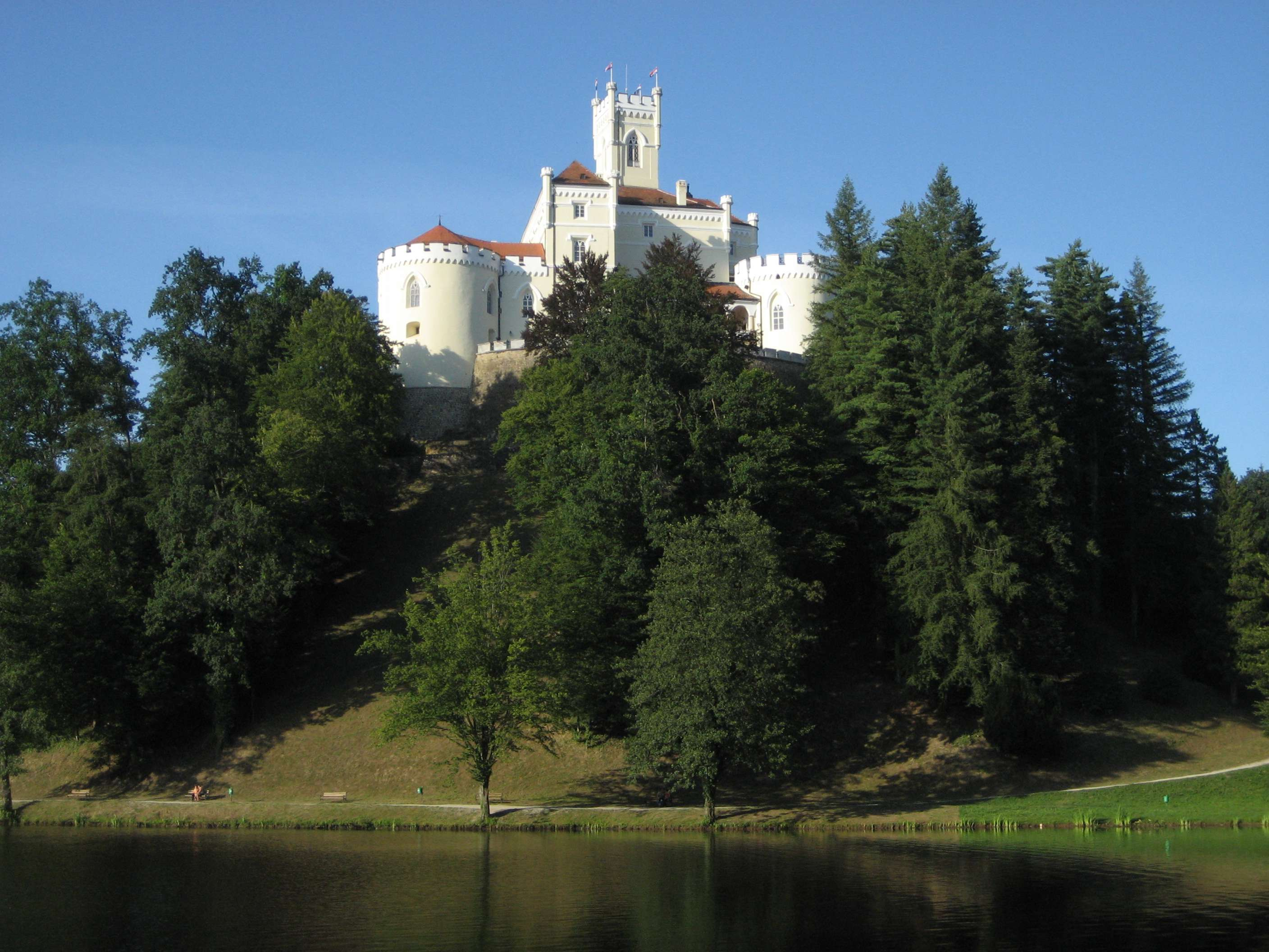 Castle Trakošćan, Northwestern Croatia